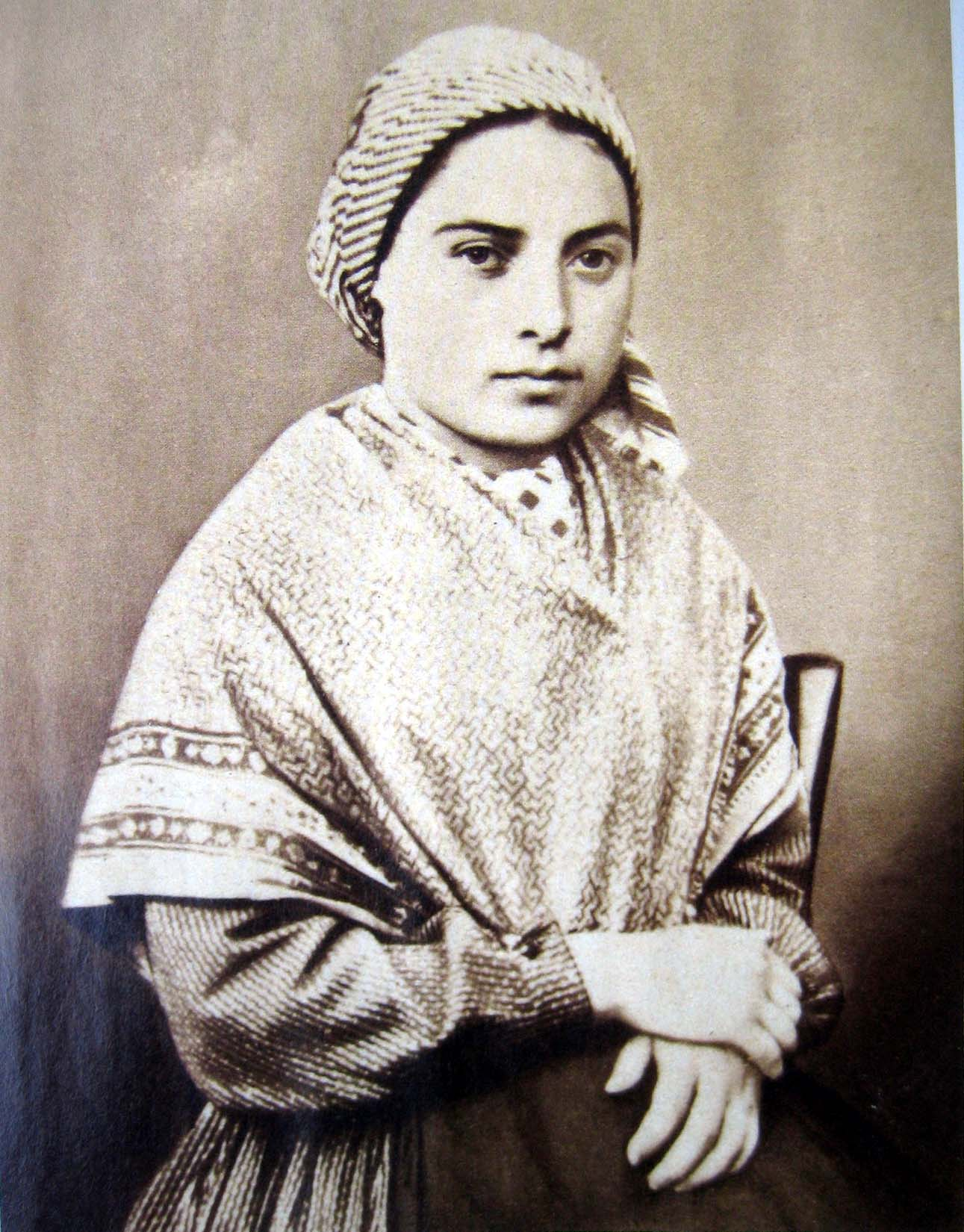 Bernadette Soubirous when a child.